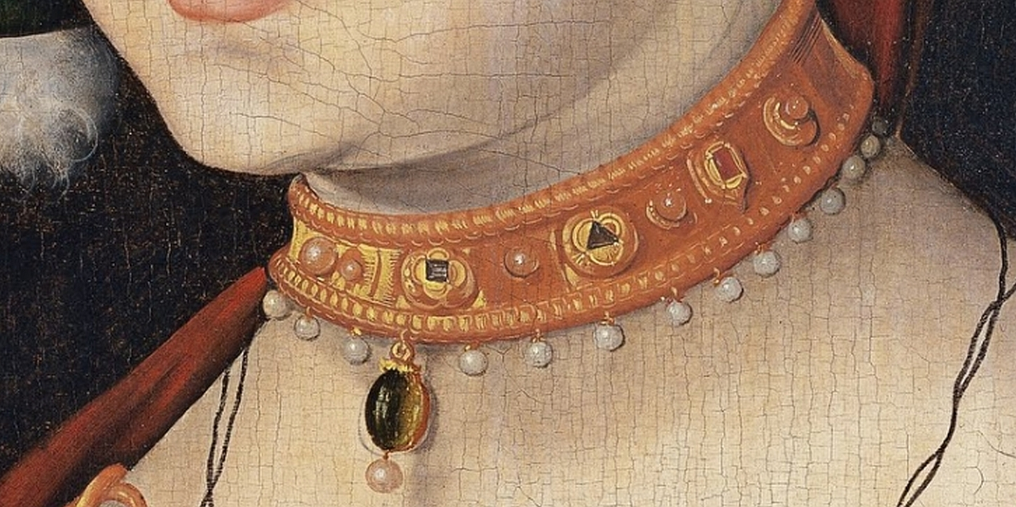 detail of necklace